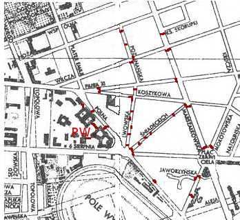 Position of barricades during the Warsaw Uprising on a pre-war map of Warsaw (1935). Such barricades were erected in all of the Polish-held territory from the very beginning of the struggle. Initially they were constructed by local civilian population, but soon the Armia Krajowa headquarters dispatched units composed of engineers (many of whom were university professors) to supervise the construction. The barricades were built from a variety of materials, from pieces of furniture strengthened with pavement bricks, to streetcars, to broken trucks and rubble. Several baricades were strengthened with captured German tanks. Warsaw University of Technology area in which heavy fights occurred during all of the Uprising are marked with letters PW, location of baricades marked in dark red.